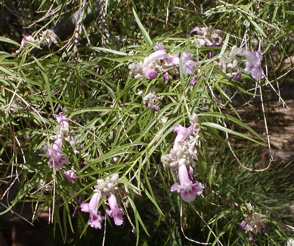 Photo of Chilopsis linearis (desert willow) at the Desert Demonstration Garden in Las Vegas